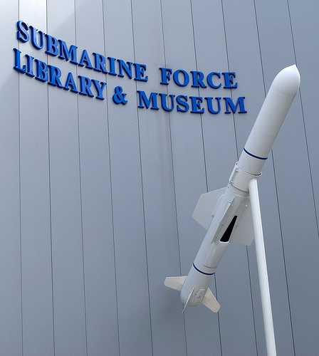 Entrance to U.S. Navy Submarine Force Museum and Library with UGM-84 missile in front.